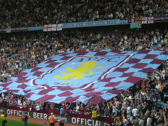 The Flag at The Holte End